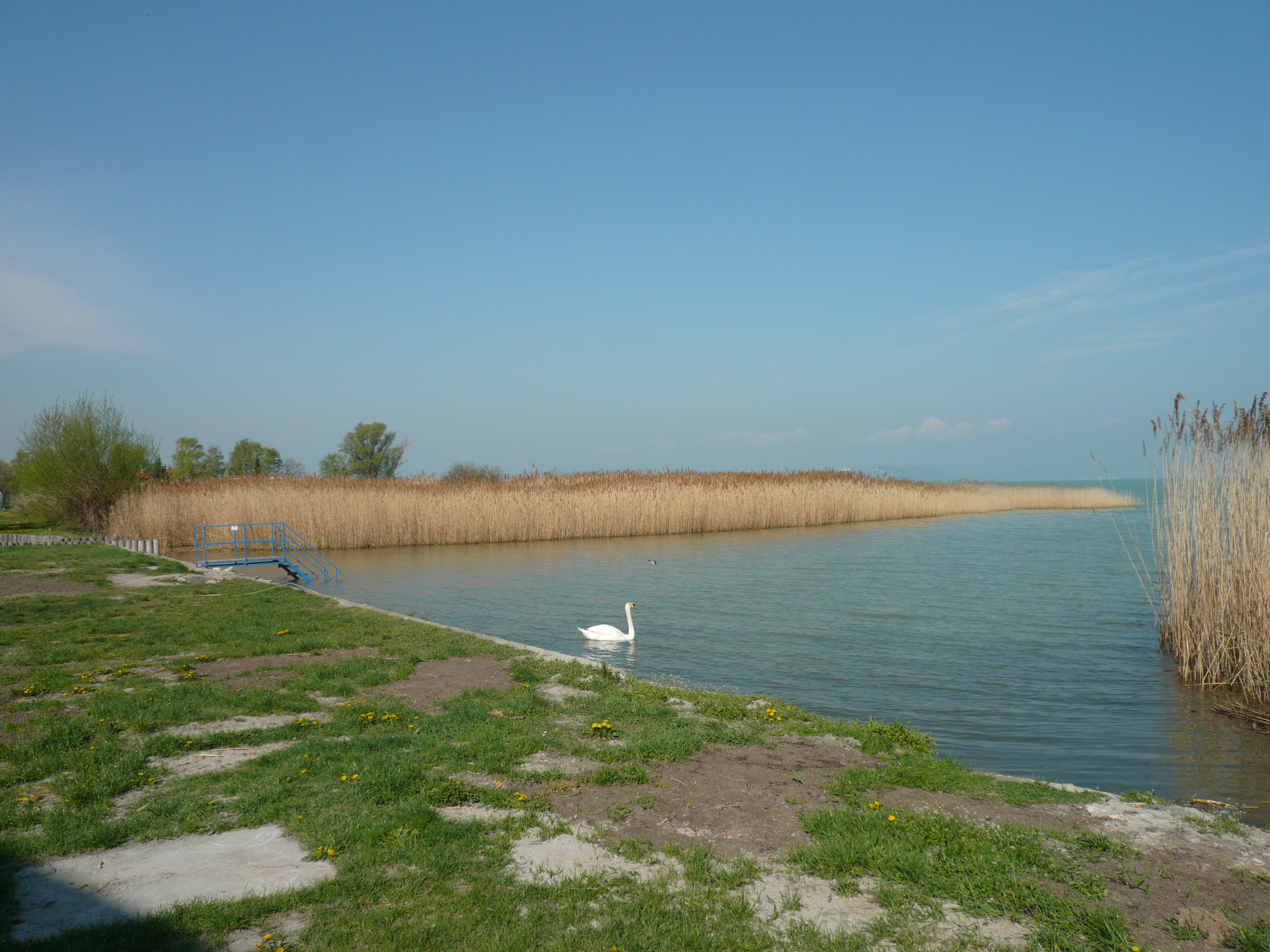 Typical bathing place on lake Balaton, Hungary